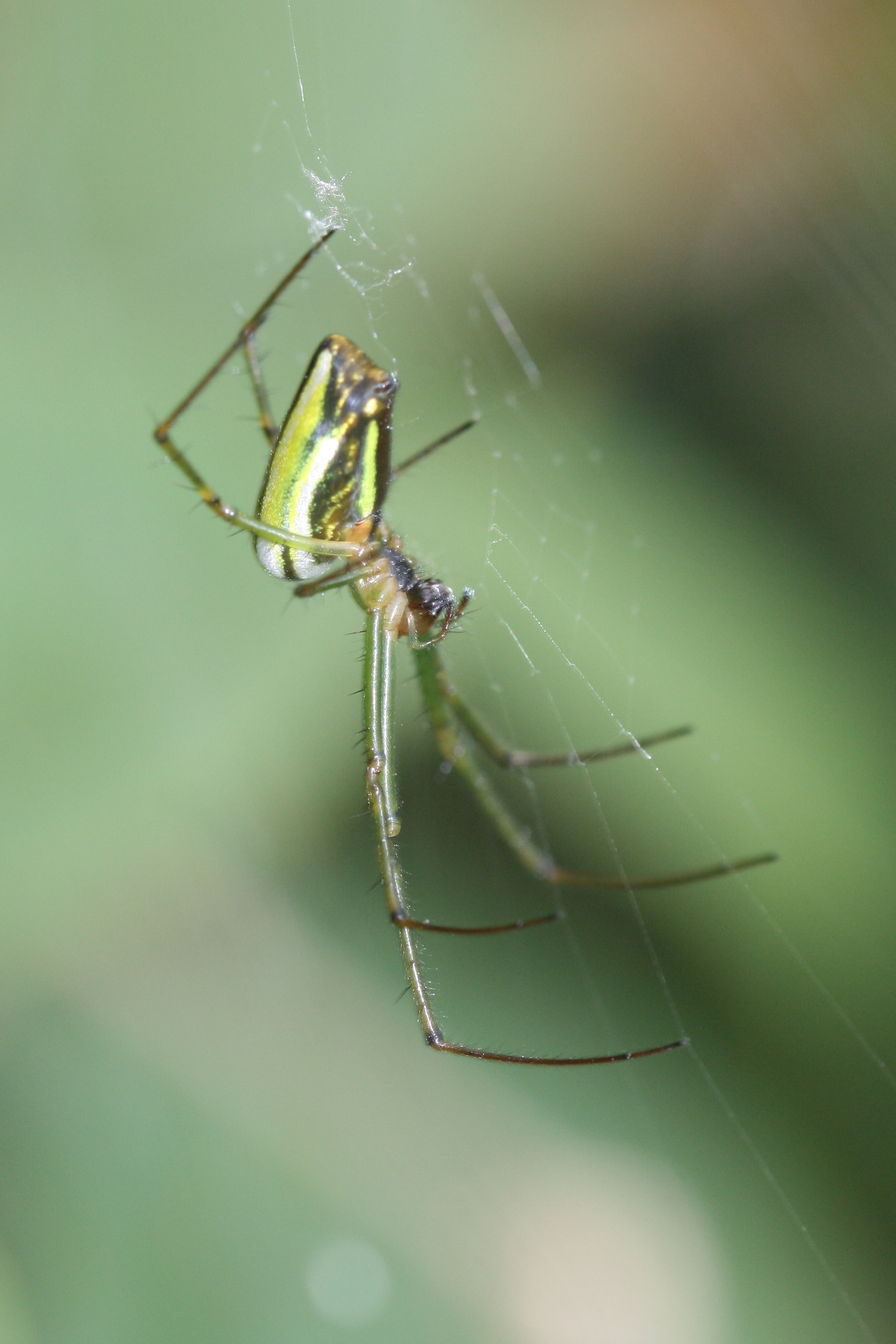 Leucauge magnifica near Shueshe, Sun Moon Lake, Taiwan. Photographed on 3 March 2009.